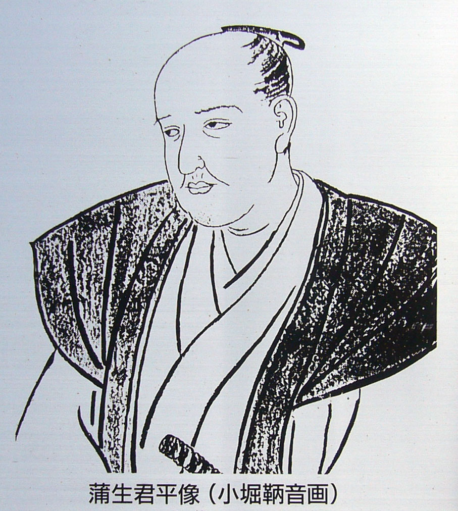 Gamou Kunpei (Japanese confucianist)